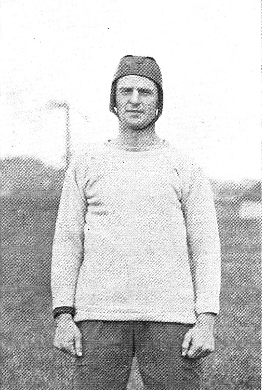 Photograph of A. J. Sturznegger, University of Michigan assistant football coach from 1920-1923; head coach at Rensselaer Tech (NY) in 1915